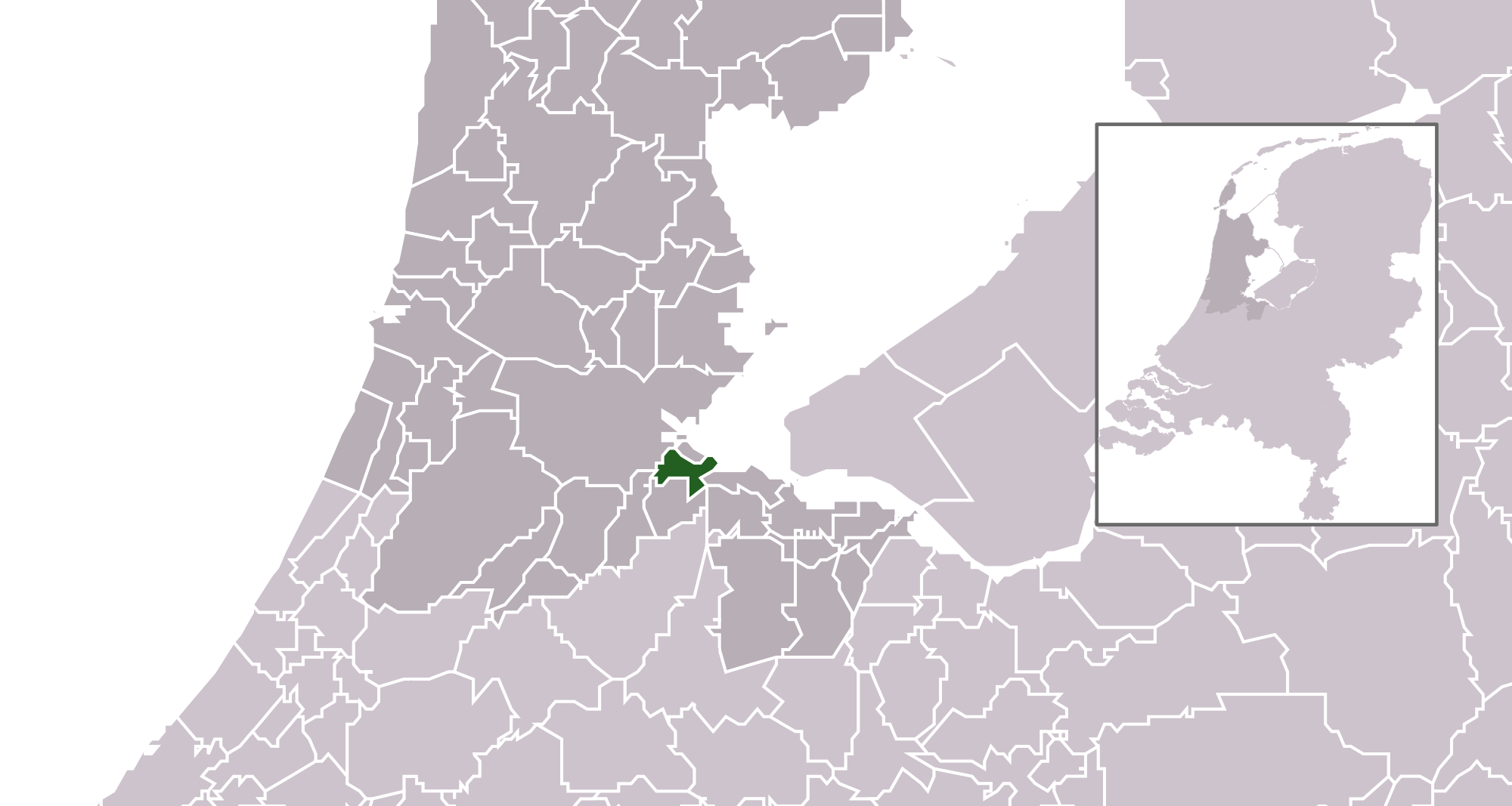 Location maps for the 441 municipalities in the Netherlands. Boundaries 1/1/2009 Automatically generated with script File name contains "Municipality code" (CBS-code) as specified in: [1] Created in svg using coordinate data derived from ESRI data published by Centraal Bureau voor de Statistiek, Voorburg/Heerlen. ([2]) Color coding and original design (slightly adpated by me) by user Mtcv (2006/2007) ([3]) Updated until January 1, 2014 The copyright holder of this file, Centraal Bureau voor de Statistiek, allows anyone to use it for any purpose, provided that the copyright holder is properly attributed. Redistribution, derivative work, commercial use, and all other use is permitted. Attribution: Centraal Bureau voor de Statistiek This work is free and may be used by anyone for any purpose. If you wish to use this content, you do not need to request permission as long as you follow any licensing requirements mentioned on this page.